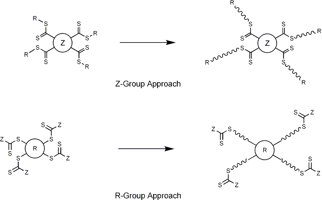 Difference between the R- and Z-group approaches for the synthesis of star (and other) complex architecture polymers.